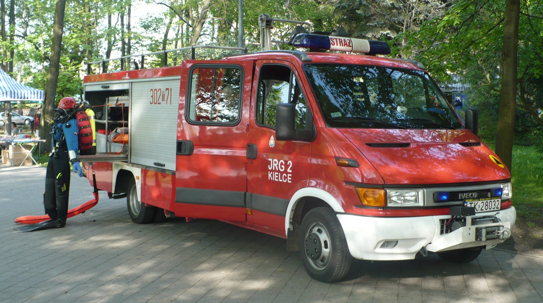 Polish SLRw Iveco Daily/Auto-SHL fire engine, No. 302[T]71, of Kielce JRG-2 Fire Brigade.